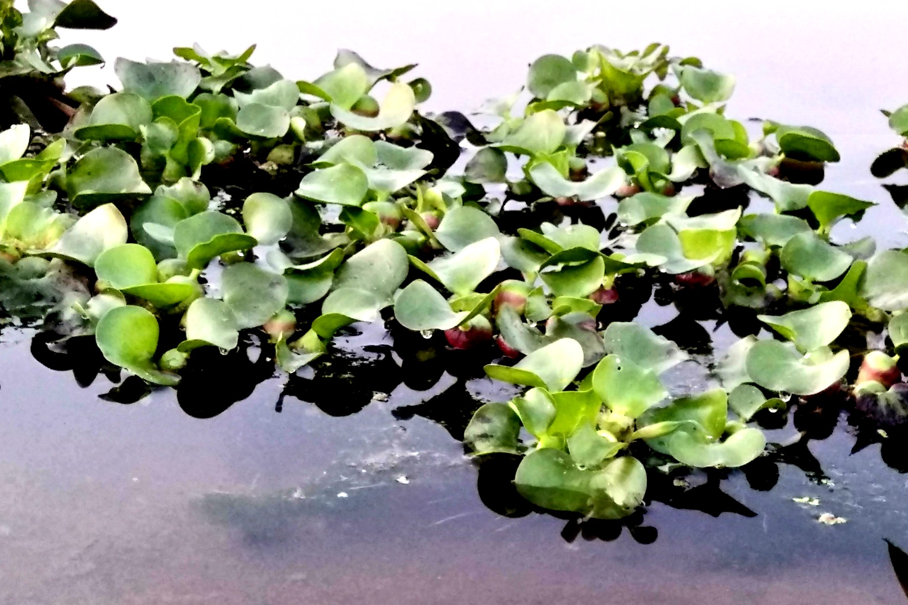 নদীর জলে ভাসমান কচুরিপানা